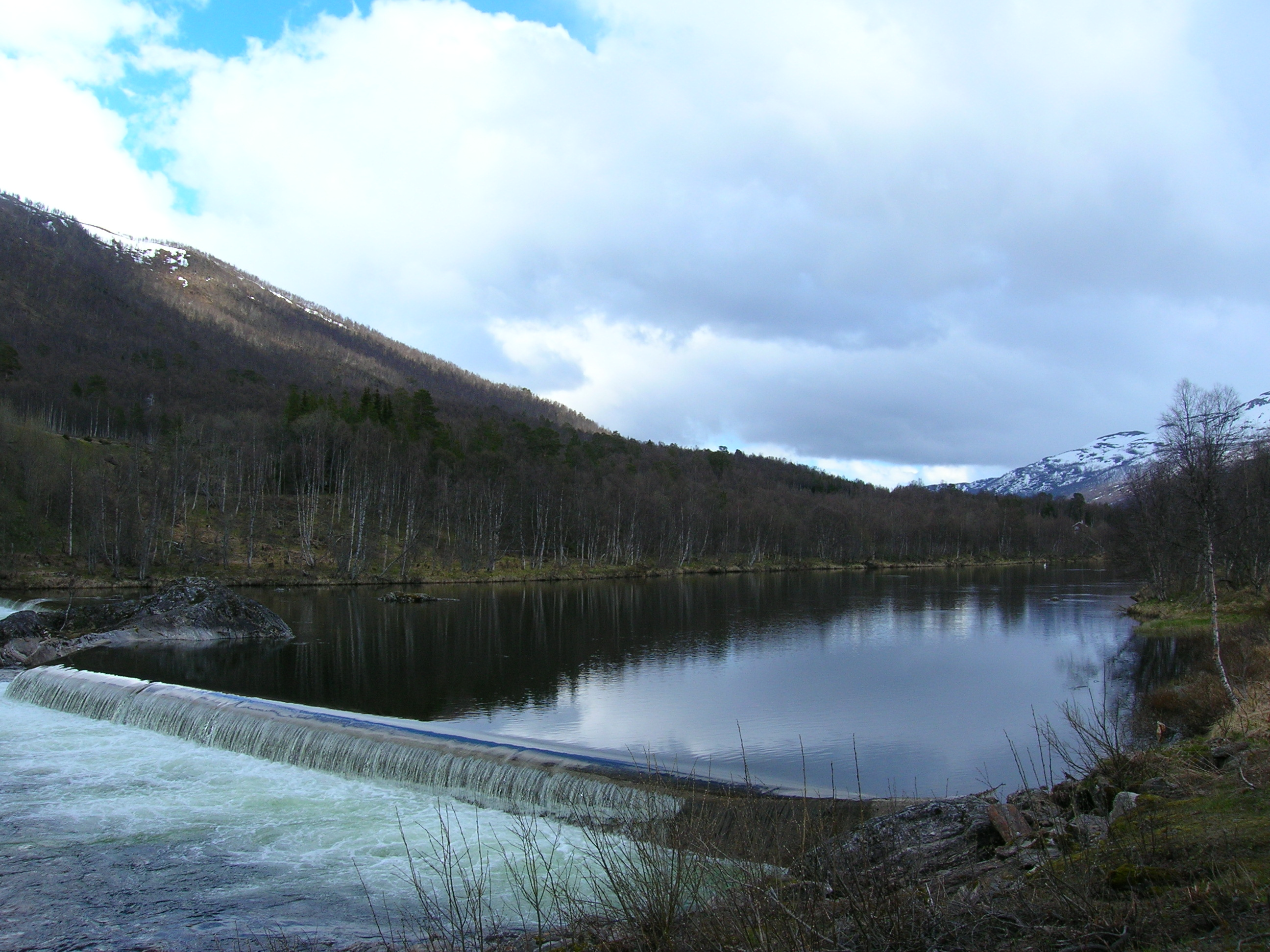 Part of the river Ranelva north of Storvoll, Dunderlandsdalen, Rana Municipalitiy, county of Nordland, Norway. Photo 27 May 2007 with a NIKON Coolpix 5600 5,1 Megapixel camera.